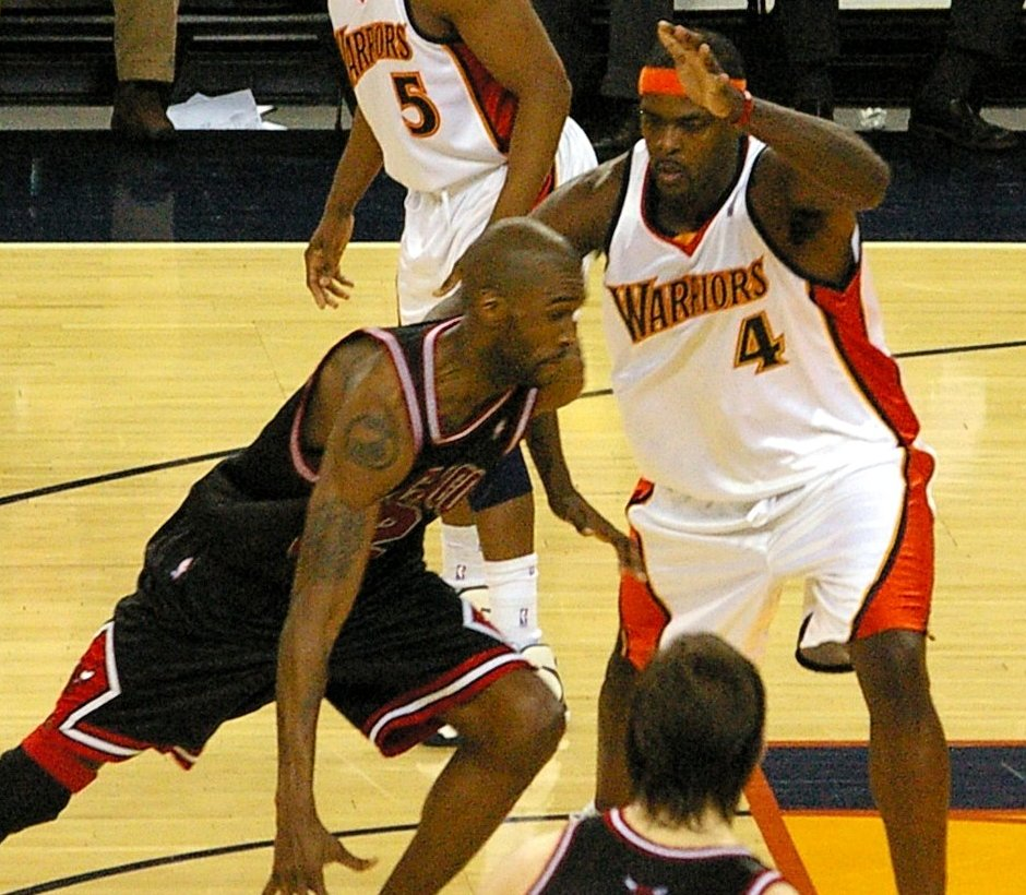 Chris Webber (right) playing for the Warriors, defending former Warrior Joe Smith This file has been extracted from another file: When Useless 1 Draft picks collide... (pt 2).jpg